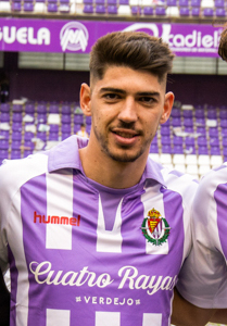 Real Valladolid - Valencia C. F., 38th fixture of the 2018-19 La Liga, May 18, 2019.